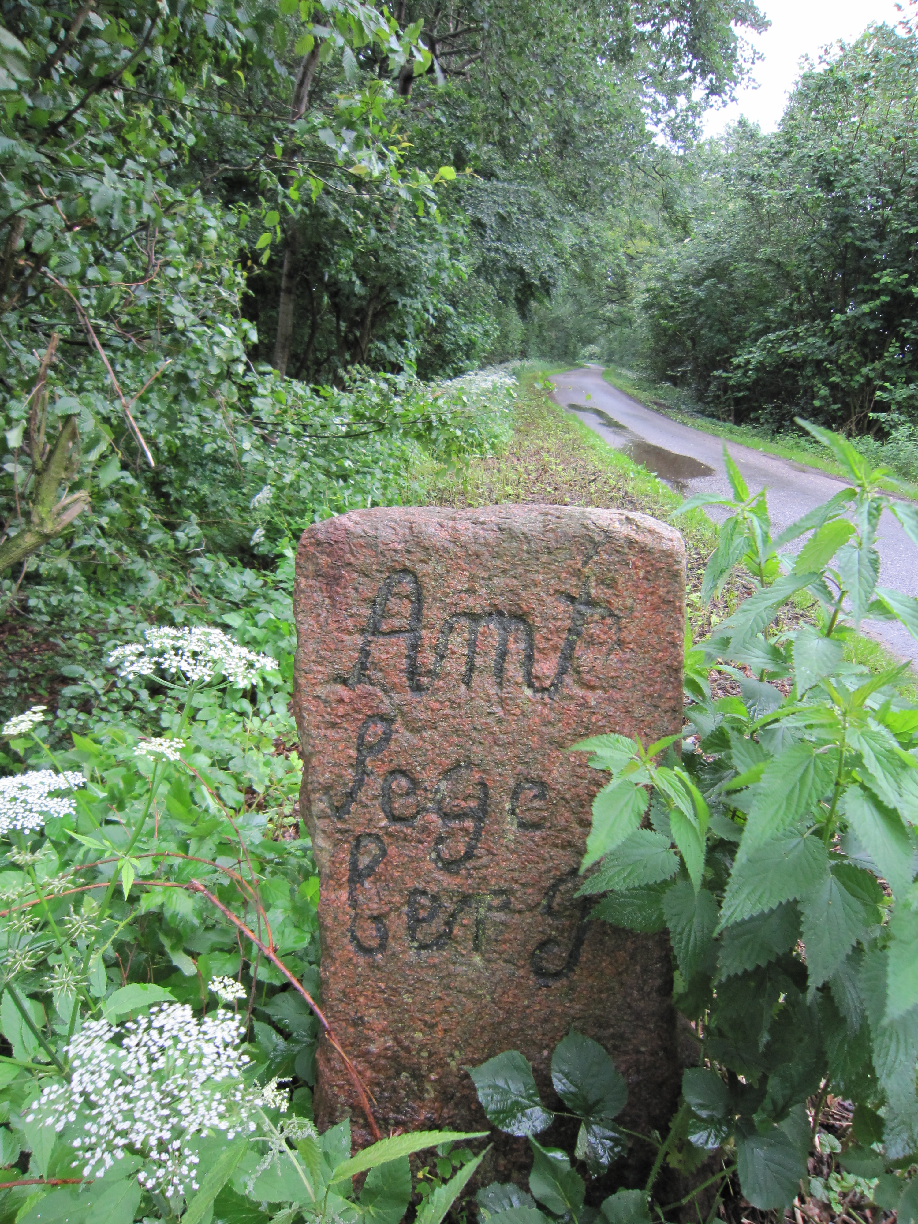 Boundary stone, Amt Segeberg